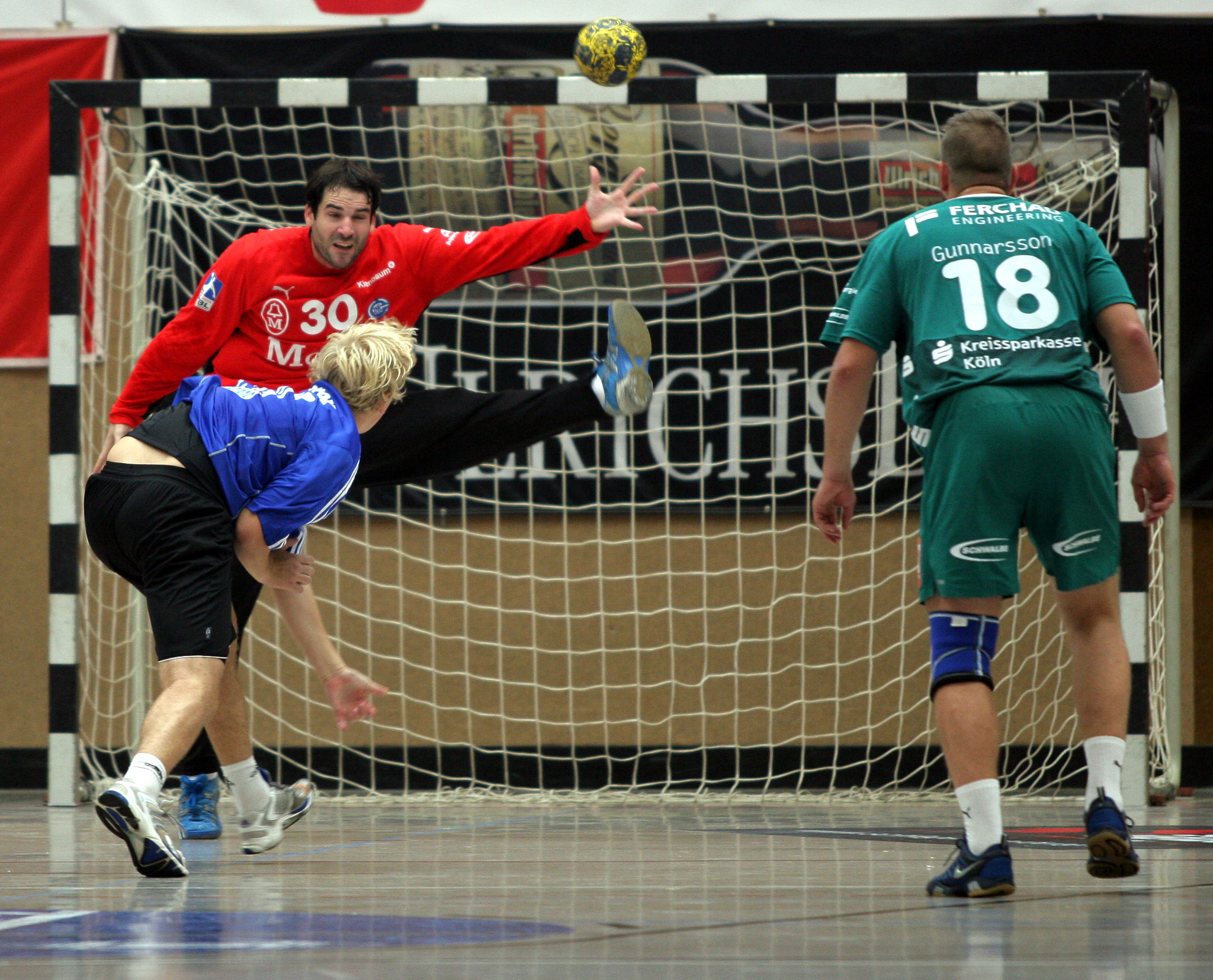 Yohann Ploquin, French handball goalkeeper from VfL Gummersbach, on August 30th, 2008 in Ehingen prior a game for the Schlecker Cup 2008